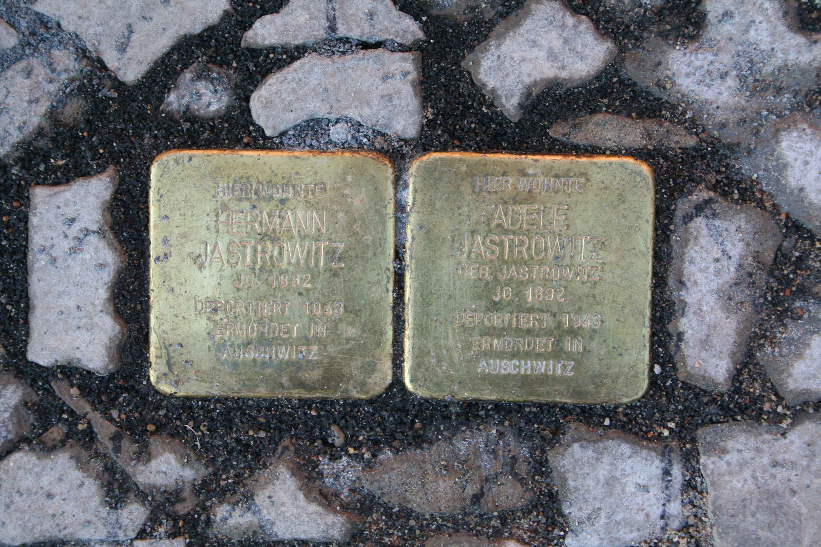 Stolpersteine at Halle (Saale) for Hermann and Adele Jastrowitz, Händelstraße 26